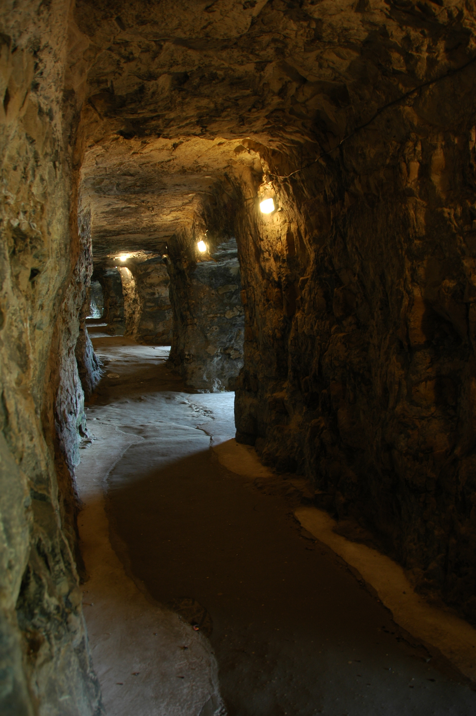 casemates under the "Bockfelsen" in Luxembourg City